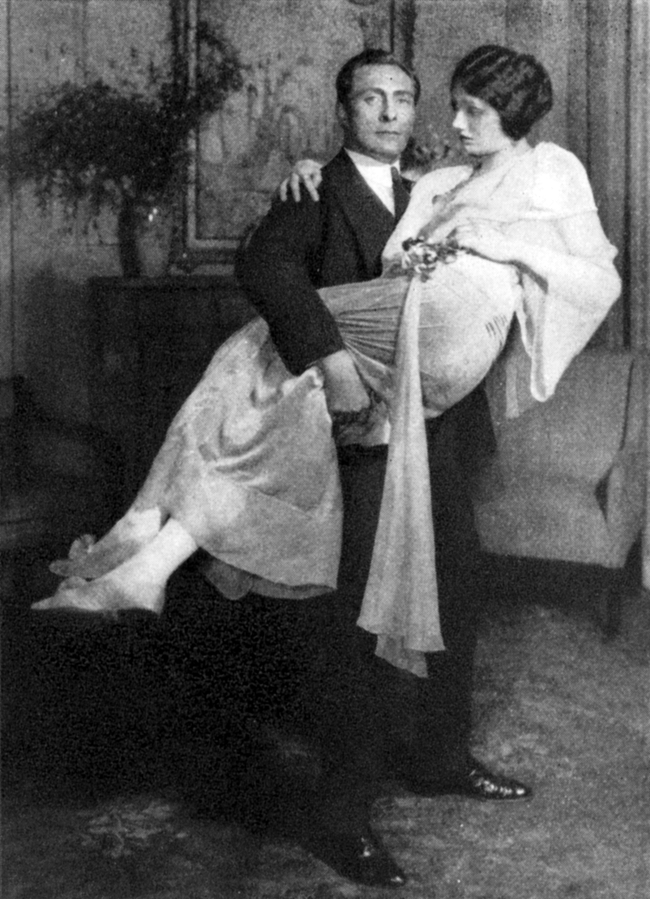 Photograph of Lionel Atwill and Katharine Cornell in the Broadway production of Dorothy Brandon's play The Outsider More information More information